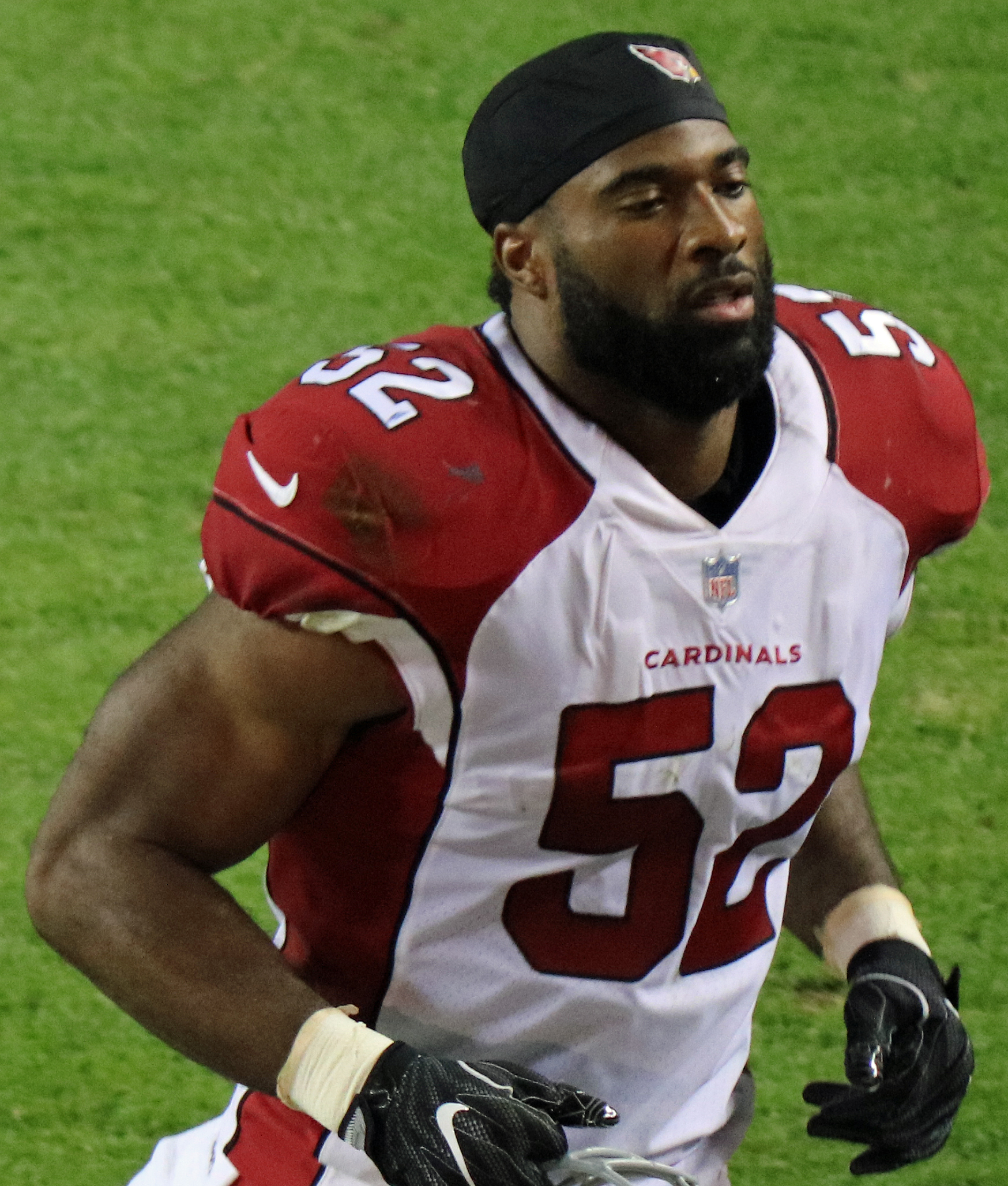 Zaviar Gooden, a player on the National Football League.